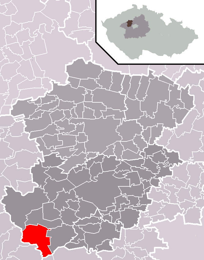 Location of Běleč municipality within Kladno District and administrative area of Kladno as a Municipality with Extended Competence.